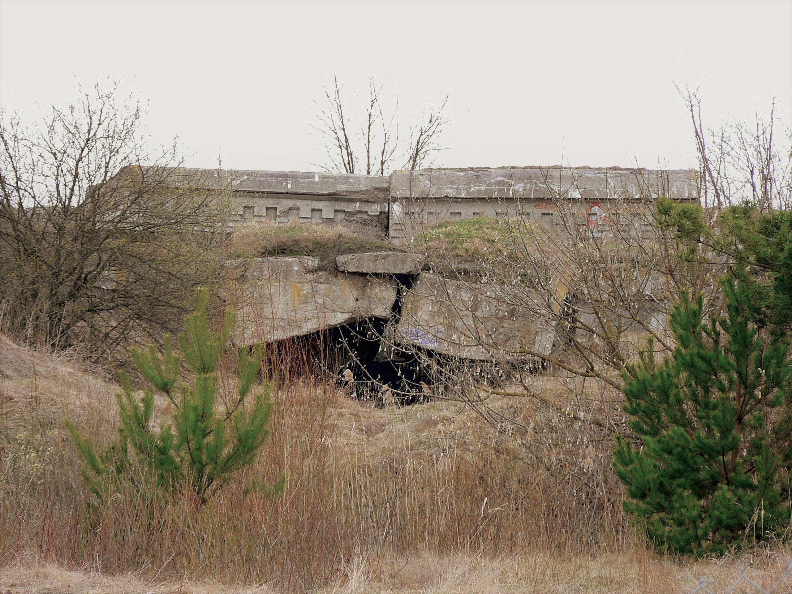 Ruins of 2nd fort in Osowiec-Twierdza, Poland